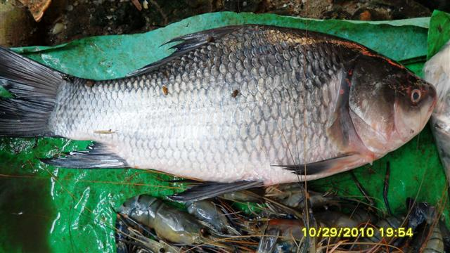 Catla catla from Kolkata, India